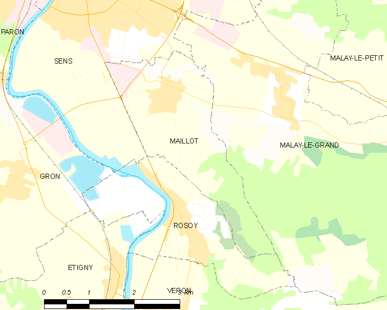 Map of French municipality Maillot